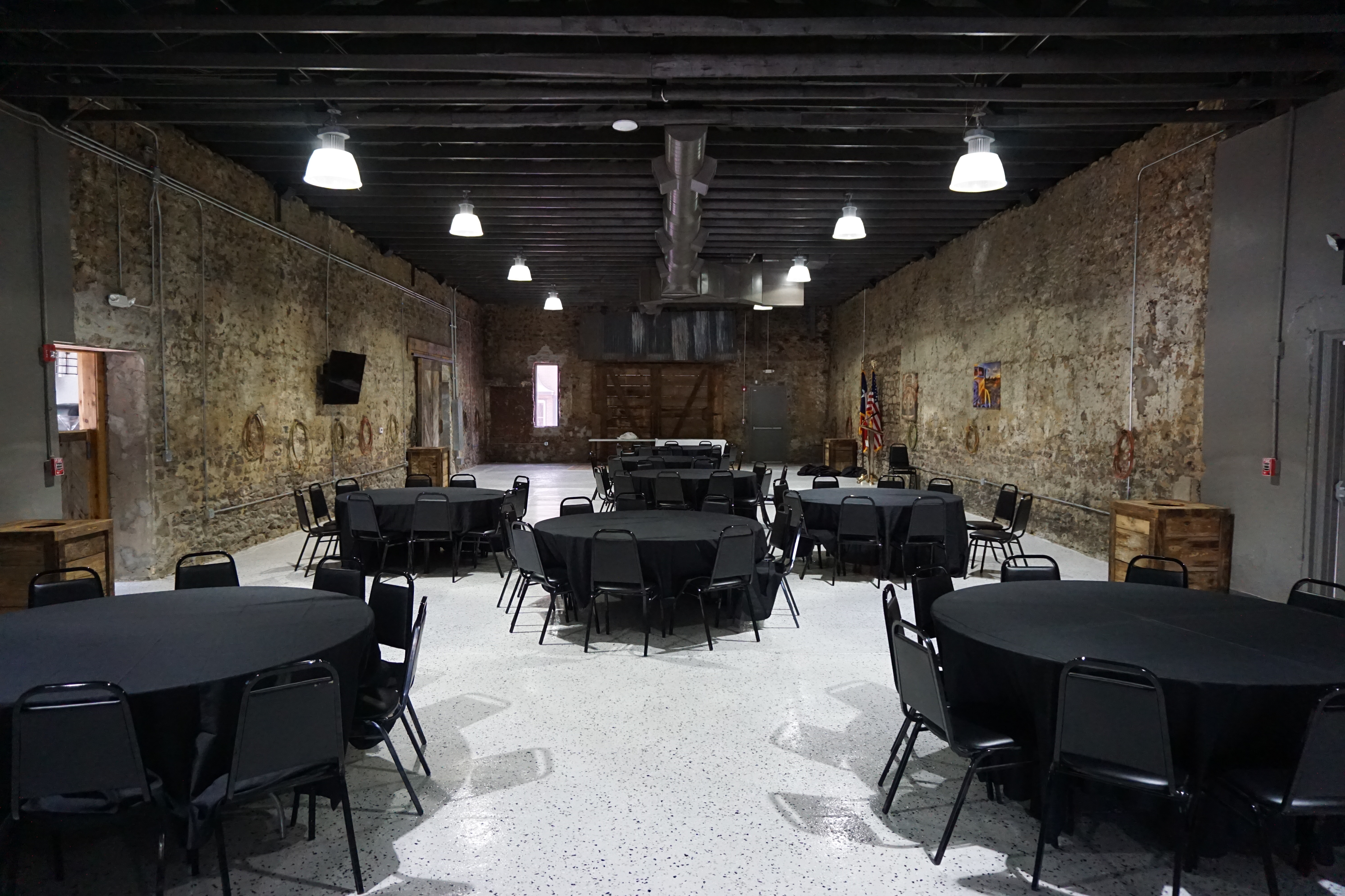 The interior of the Vintage Car Museum & Event Center in Weatherford, Texas (United States).